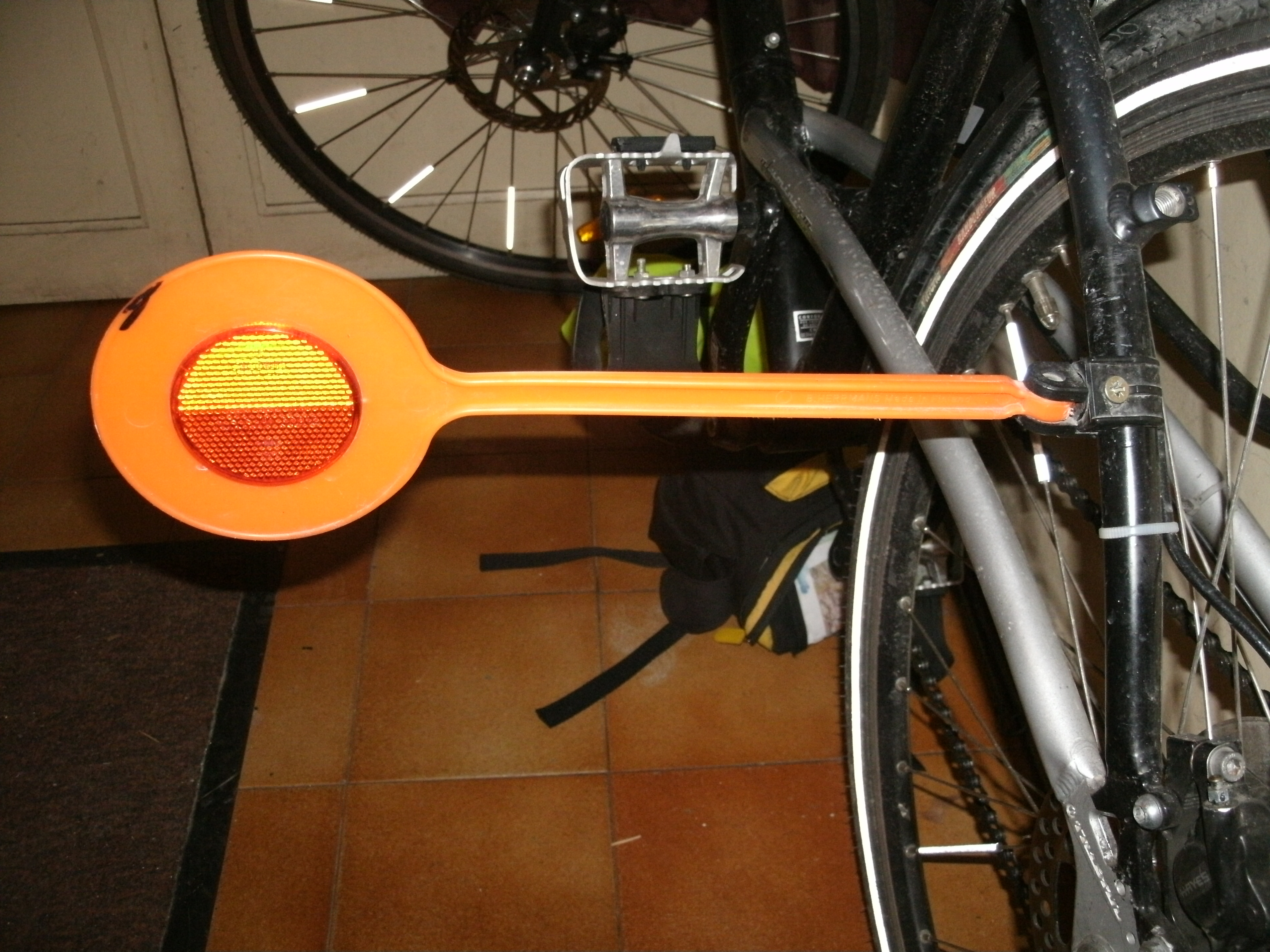 Safety wing reflector for bike